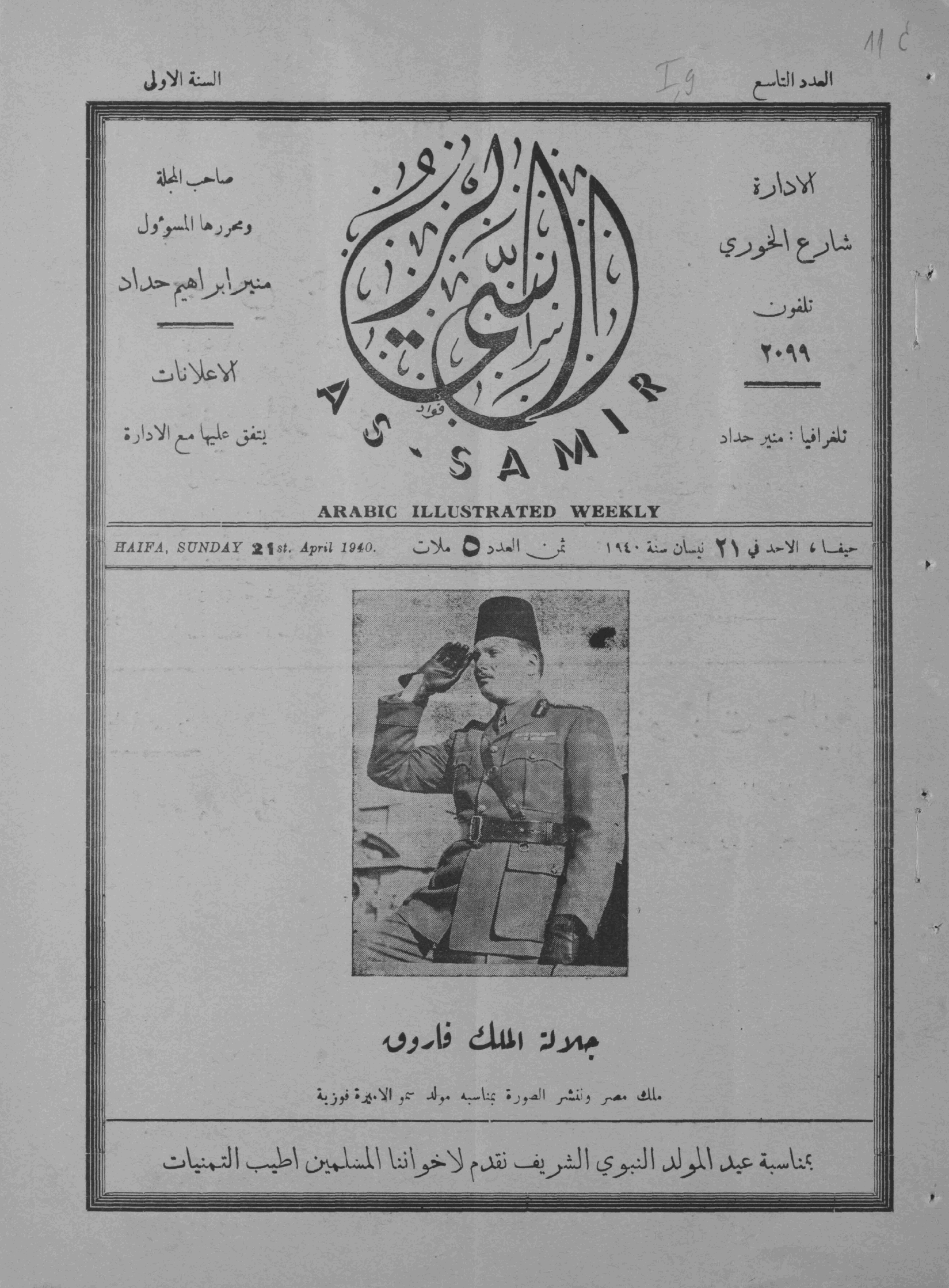 Palestinian newspaper